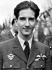 King Peter of Yugoslavia after receiving his wings from Air Chief Marshal Sir Sholto Douglas, Cairo.